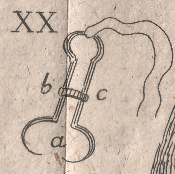 Furrier's tools